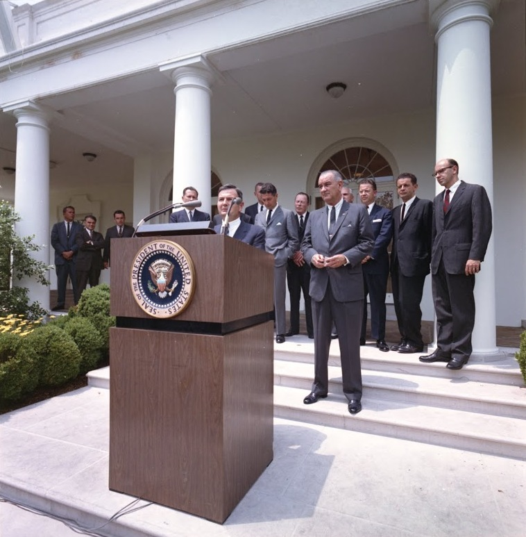 In this photo, David Rockefeller takes the podium as President Lyndon Johnson looks on in the White House Rose Garden on 15 June 1964 to announce the launch of the International Executive Service Corps.